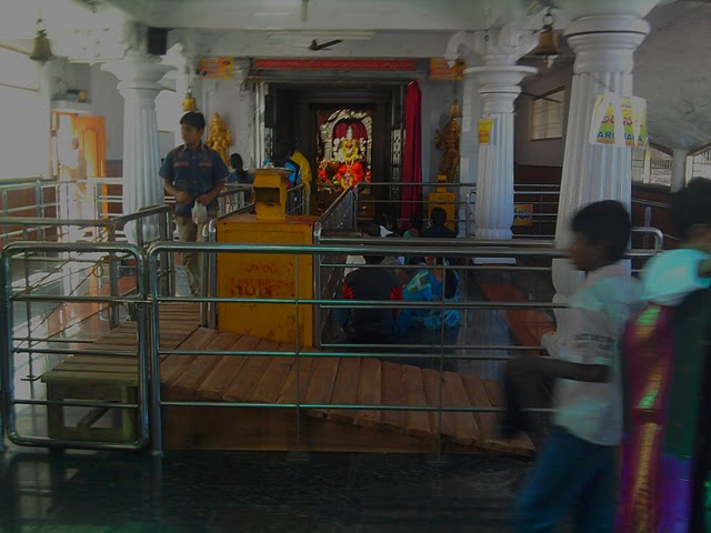 Picture of main deity, Goddess Saraswati at Wargal Saraswati Temple